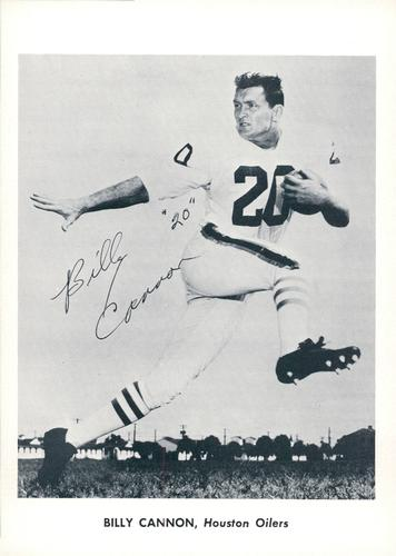 A promotional image of Houston Oilers player Billy Cannon.